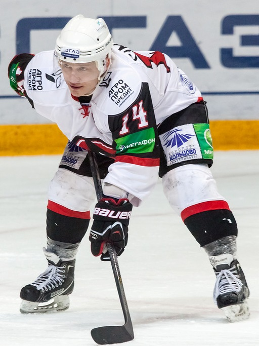 Avtomobilist Yekaterinburg forward Alexei Simakov during KHL Cup of Hope game against Amur Khabarovsk on March 11, 2013.